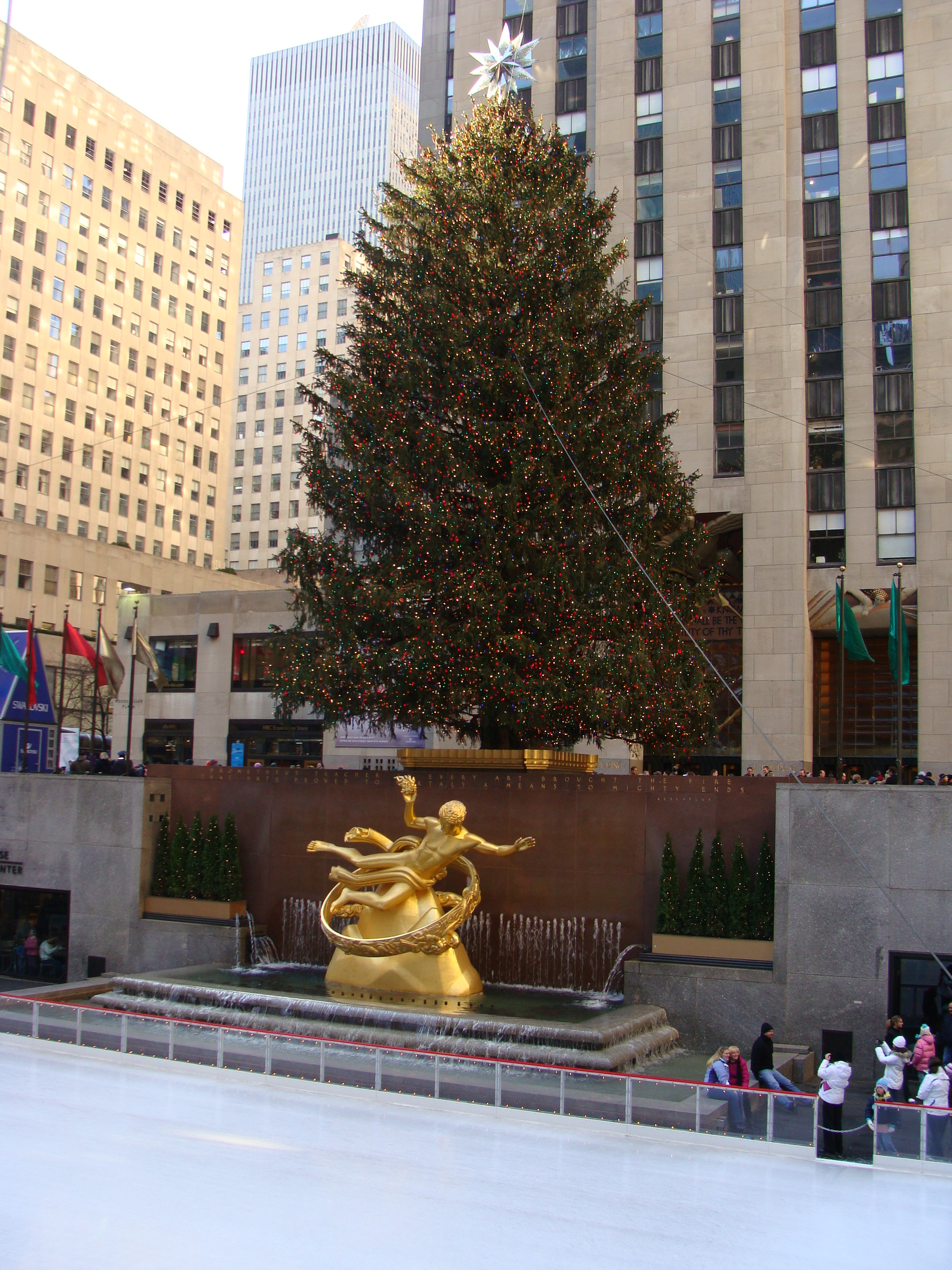 Photo taken of the traditional view of the Christmas tree at Rockefeller Center, NYC. The iPhone said 28 degrees. It was cold.